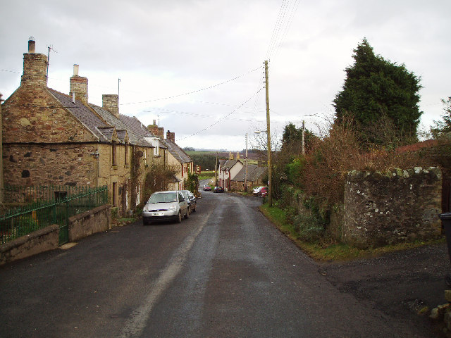 Auchencrow